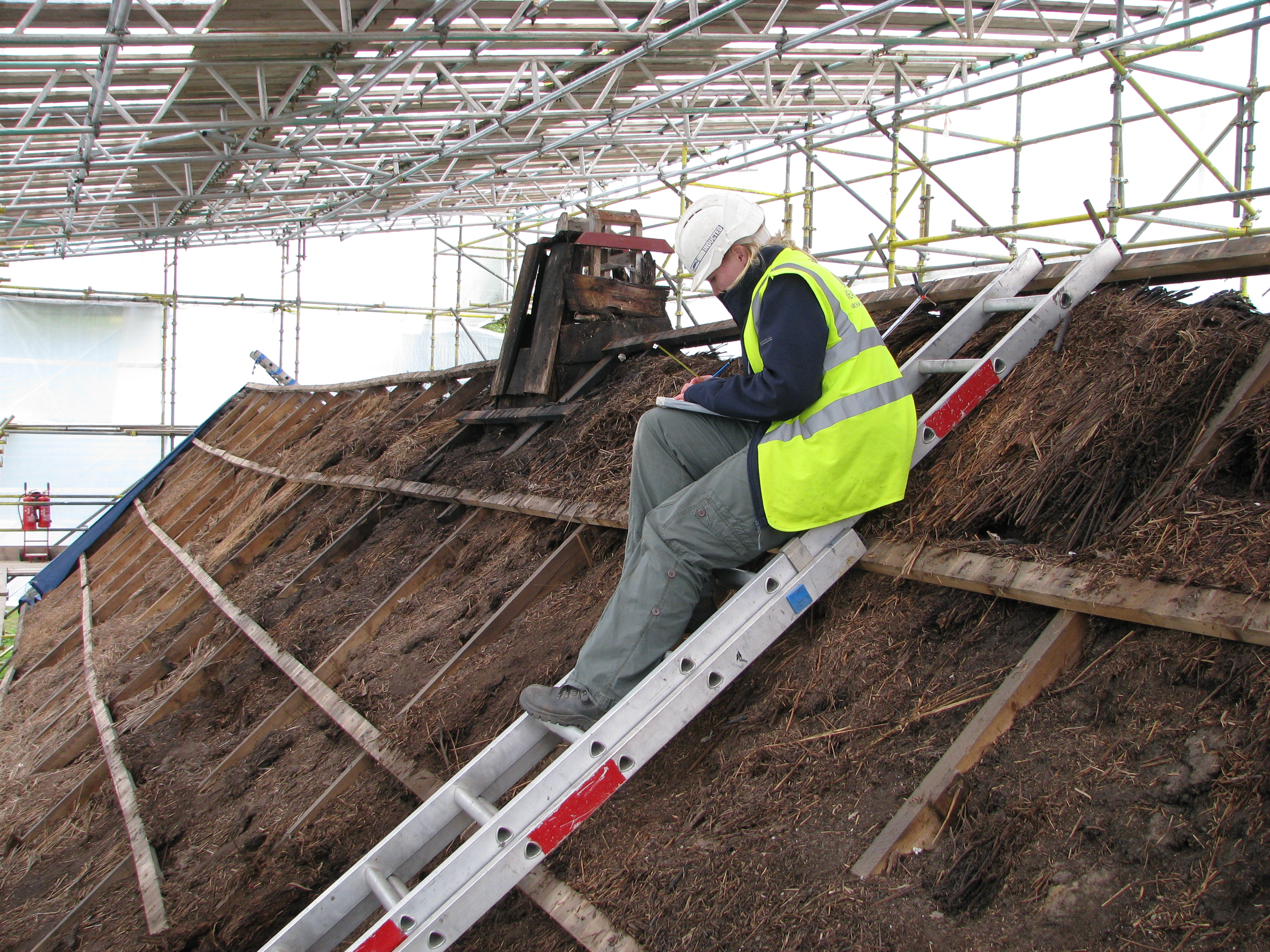 Work on the Moirlanich Longhouse roof